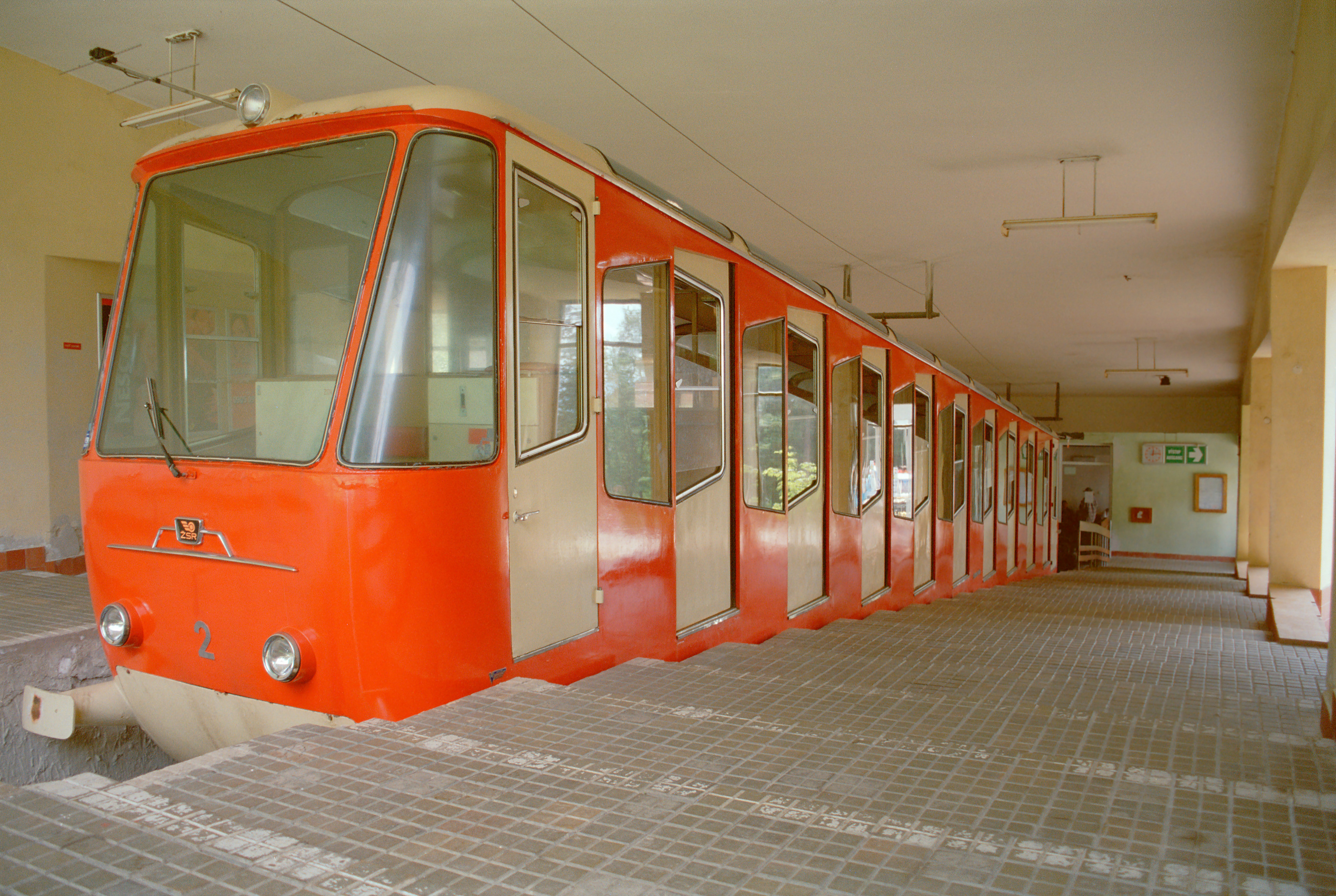 cable car (funicular) to Hrebienok in Starý Smokovec own picture, taken in summer 2000